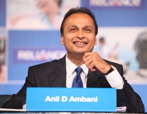 Mr Anil Ambani's during 2012 Reliance Group AGM at Mumbai